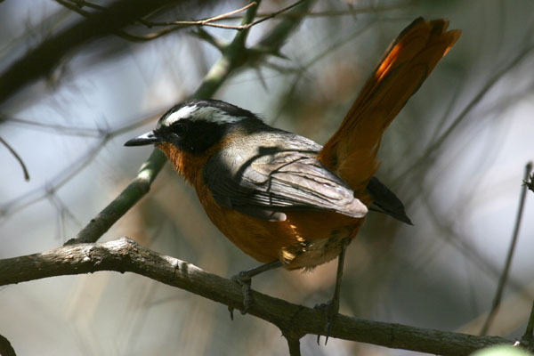 Ruepell's robin-chat photographed in Ethiopia